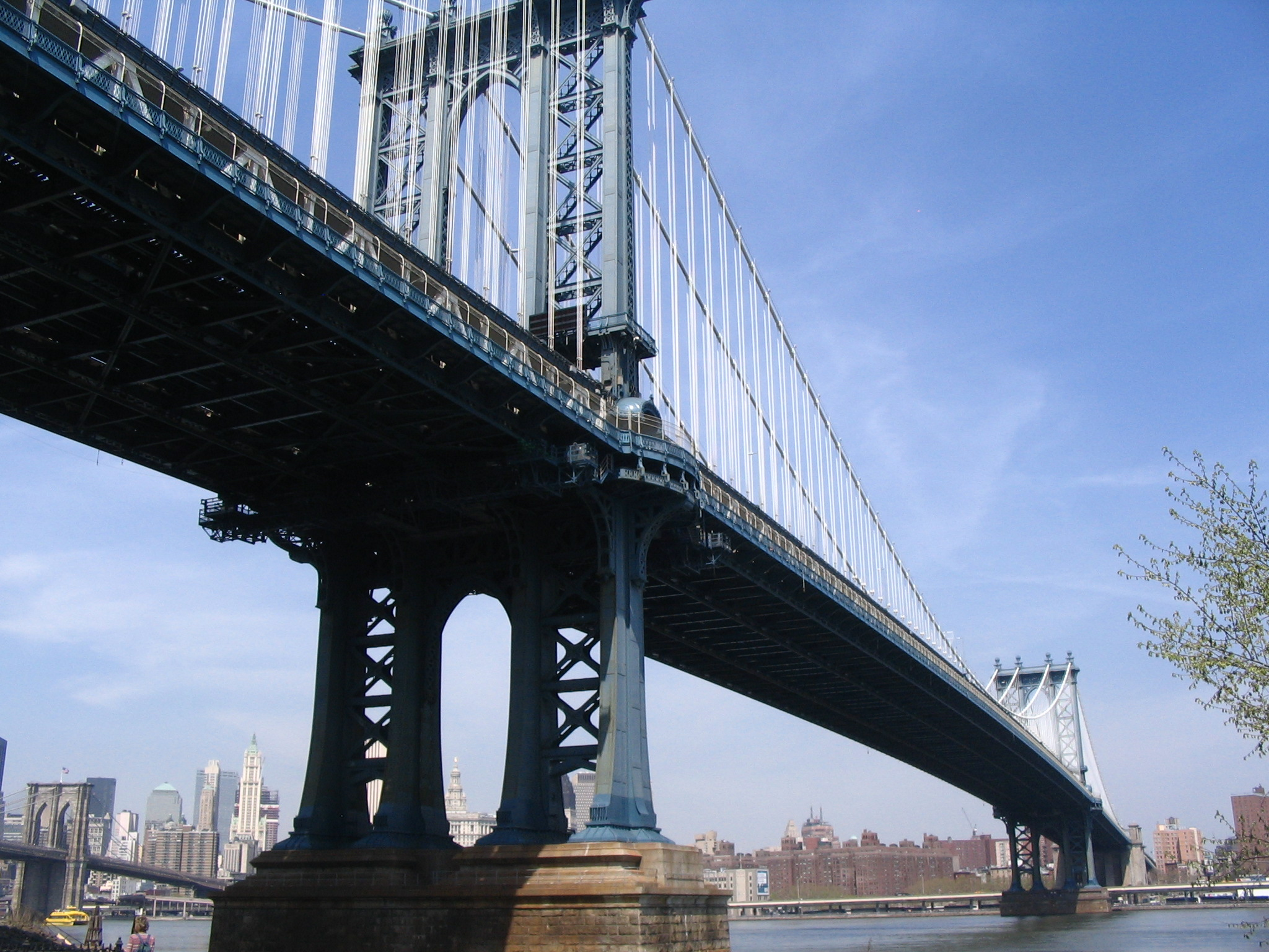 Manhattan Bridge from Fulton Landing Park